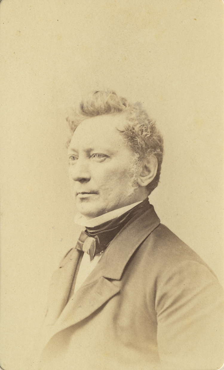 Photograph of Evert Jan Diest Lorgion (1812-1876) by Johannes Hinderikus Egenberger (1822-1897)